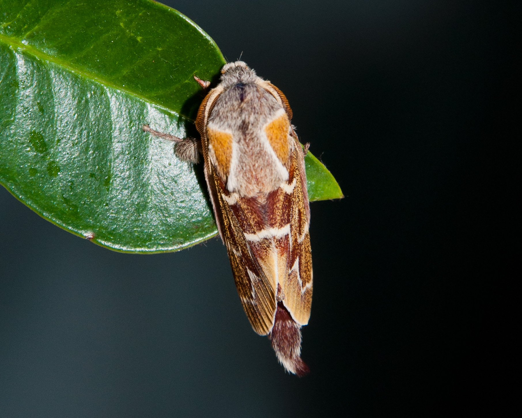 Streblote cristata. Kleinmond Lappet. Adult. Dorsal view.